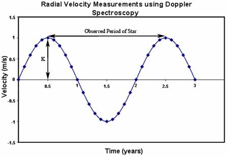 I, Dan Wingard, created this graph and allow its free use. The graph was created using hypothetical data for the purpose of describing the use of Doppler Spectroscopy.